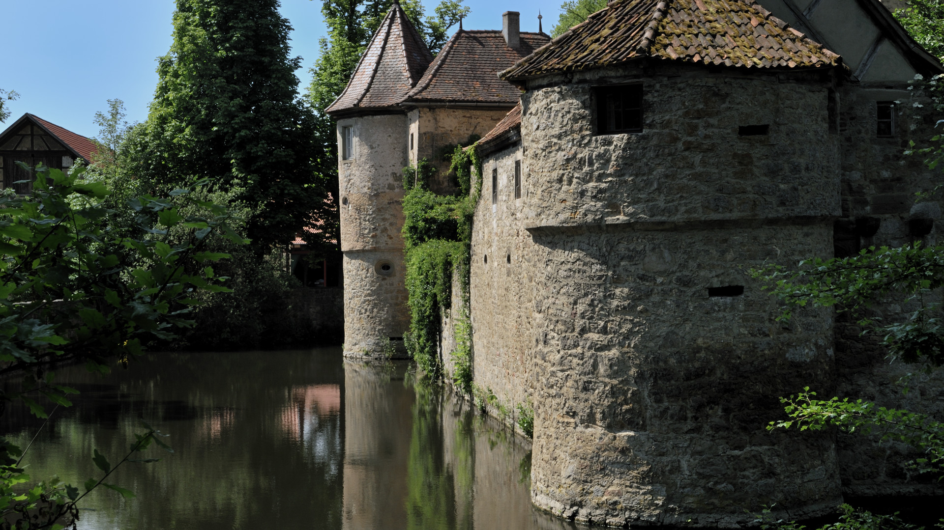 Castle Unsleben